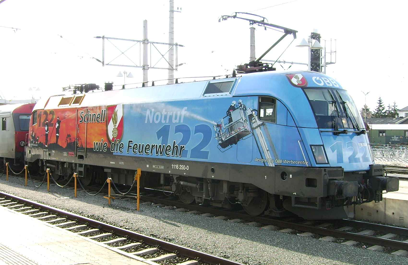 ÖBB 1116, Logo of Austrian Firefighter in train station of Wiener Neustadt